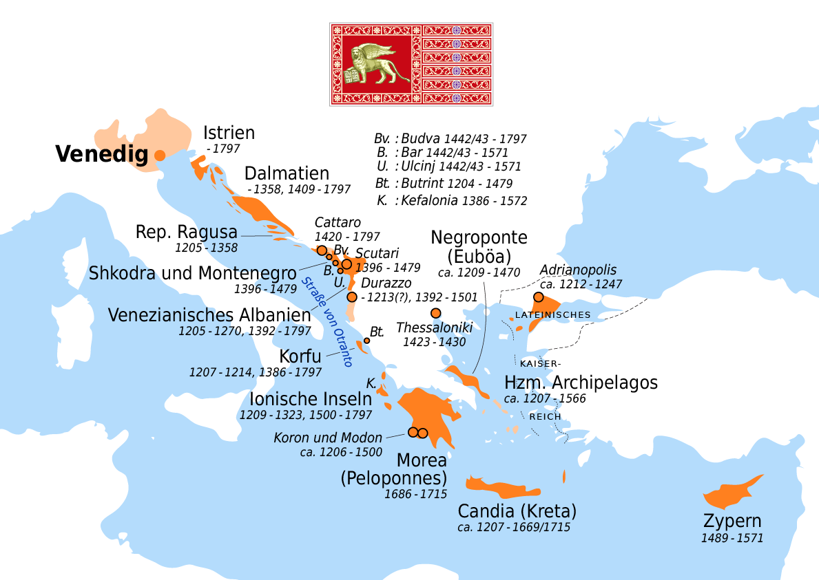 Map of the Venetian colonies